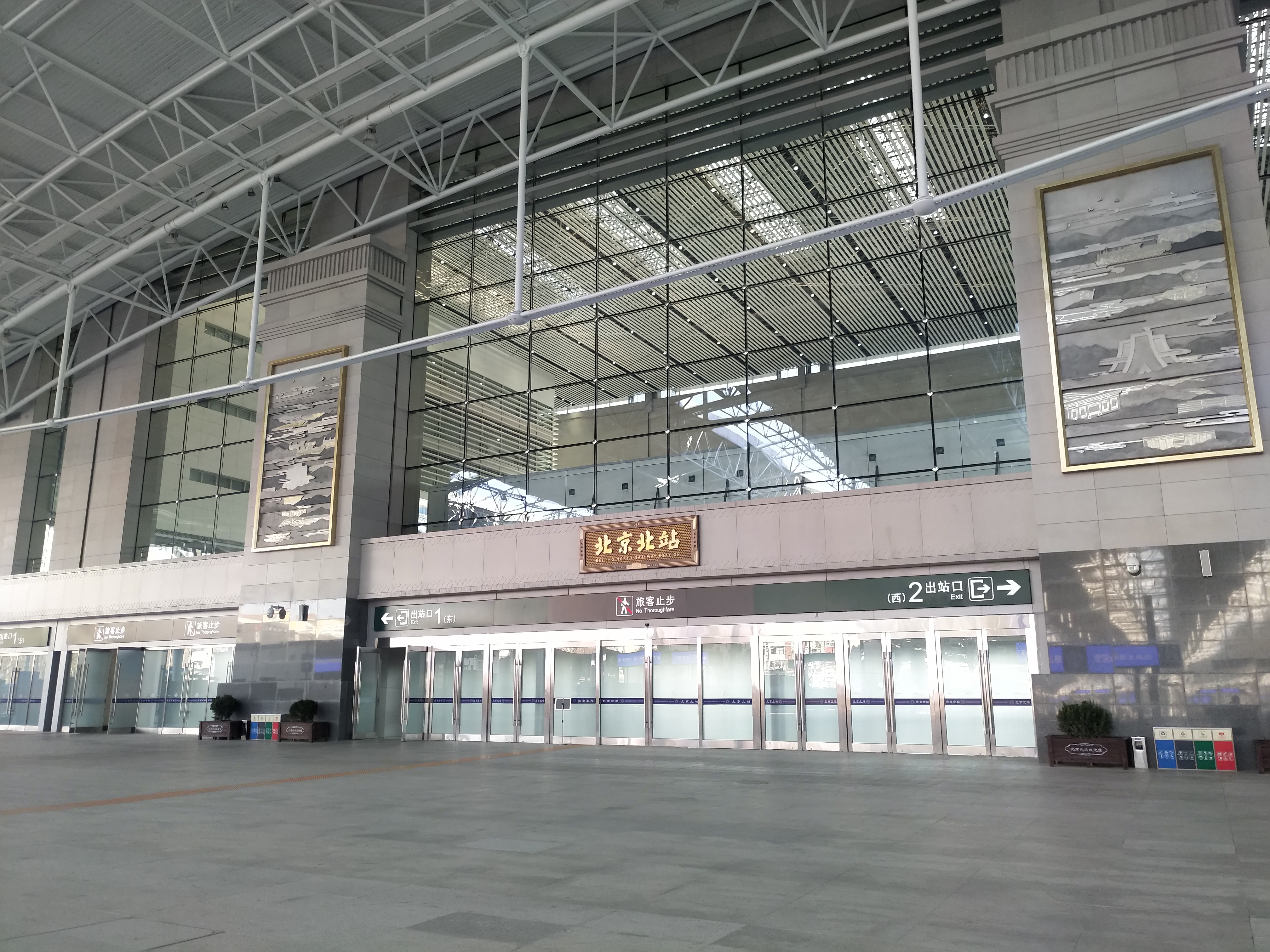 Nameplate of Beijingbei railway station, with four characters "Beijingbei Station(北京北站)".